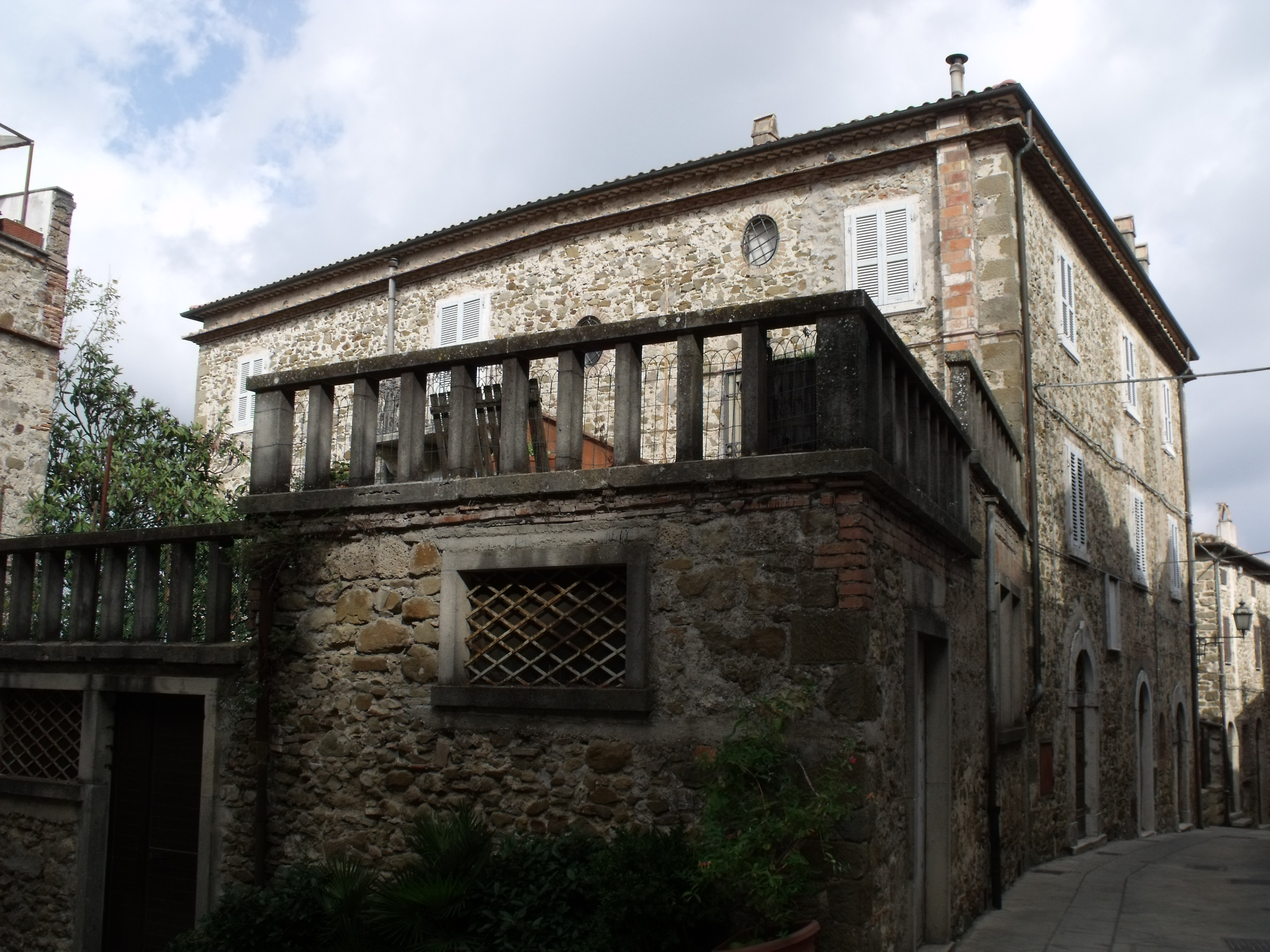 House of birth of Pietro Aldi in Manciano, Maremma, Province of Grosseto, Tuscany, Italy